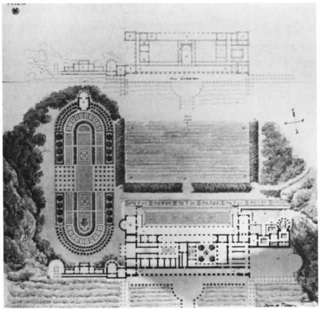 Tuscum of Plinius, reconstruction by Karl Friedrich Schinkel